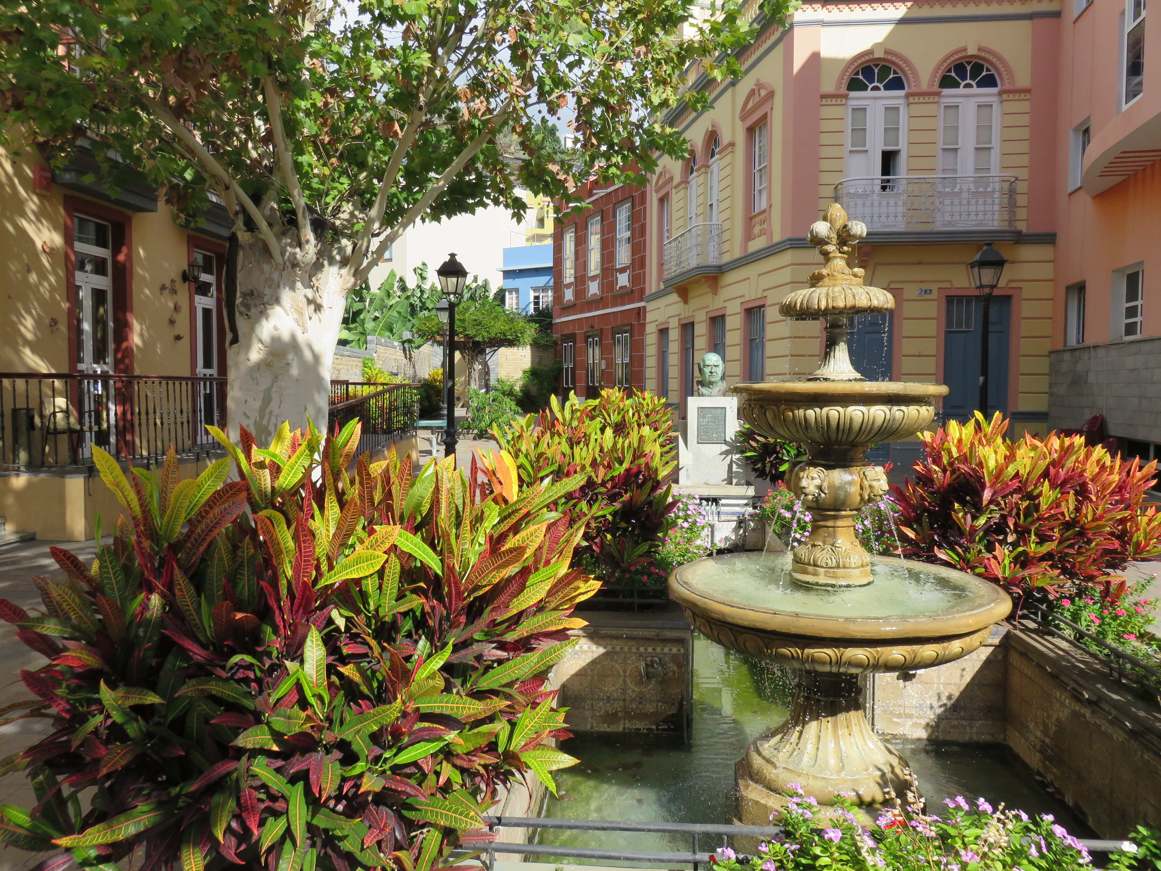 Plaza Simón Guadalupe in Villa Tazacorte, La Palma